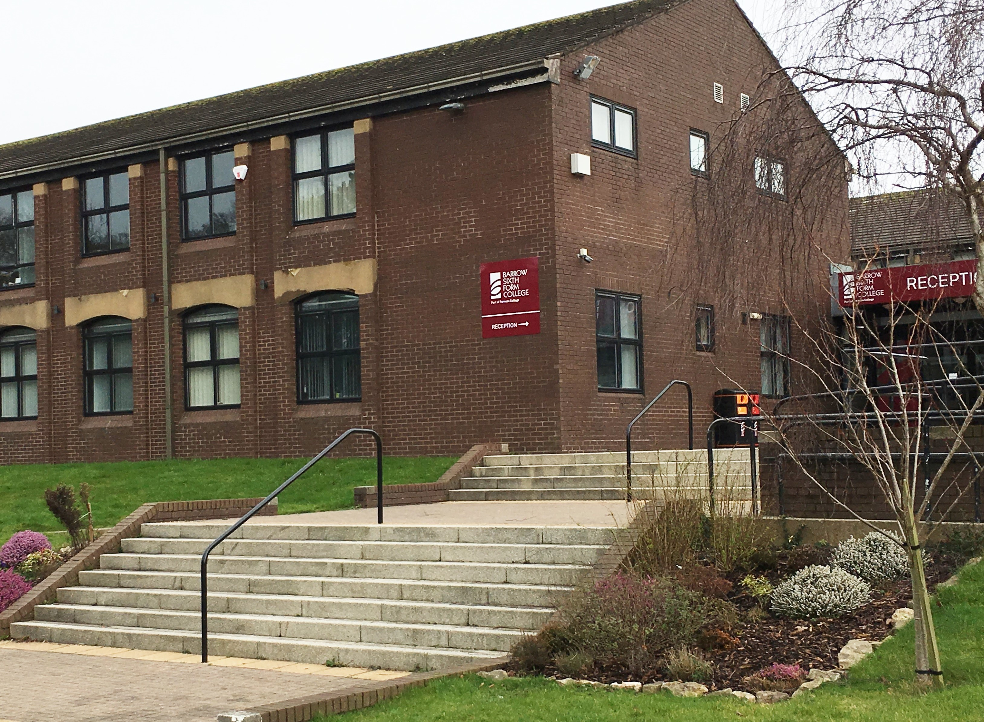 Main Building, Barrow Sixth Form College